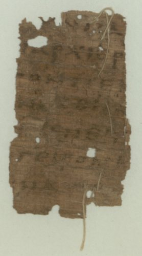 Papyrus 105 recto